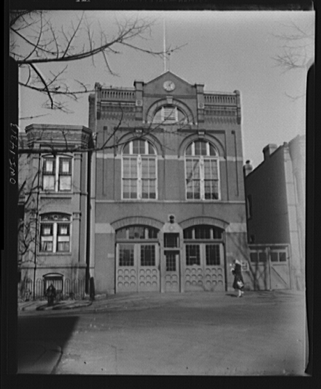 Stock Photo from the U.S. Office of War Information